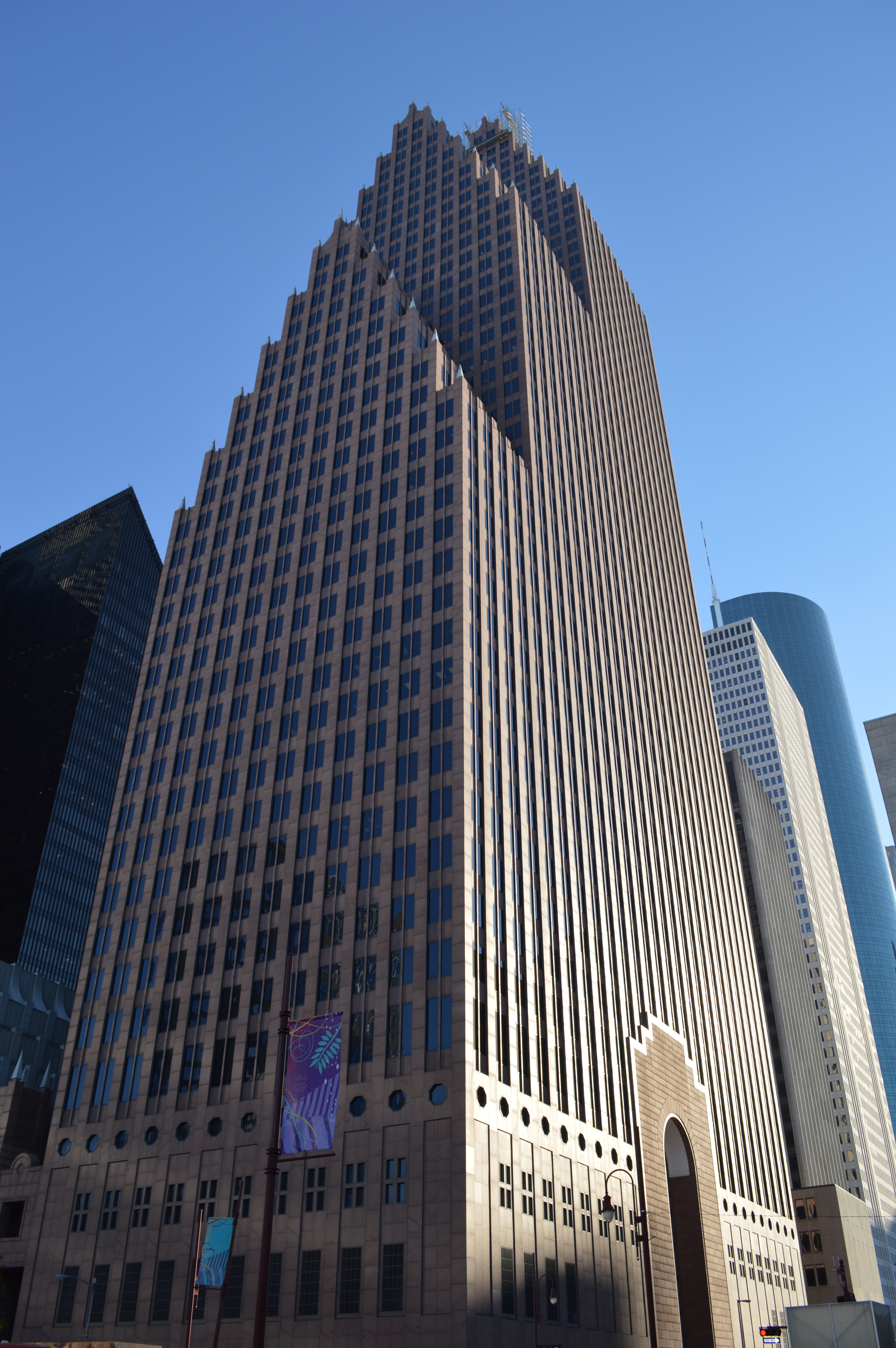 Bank of America Center in Downtown Houston.